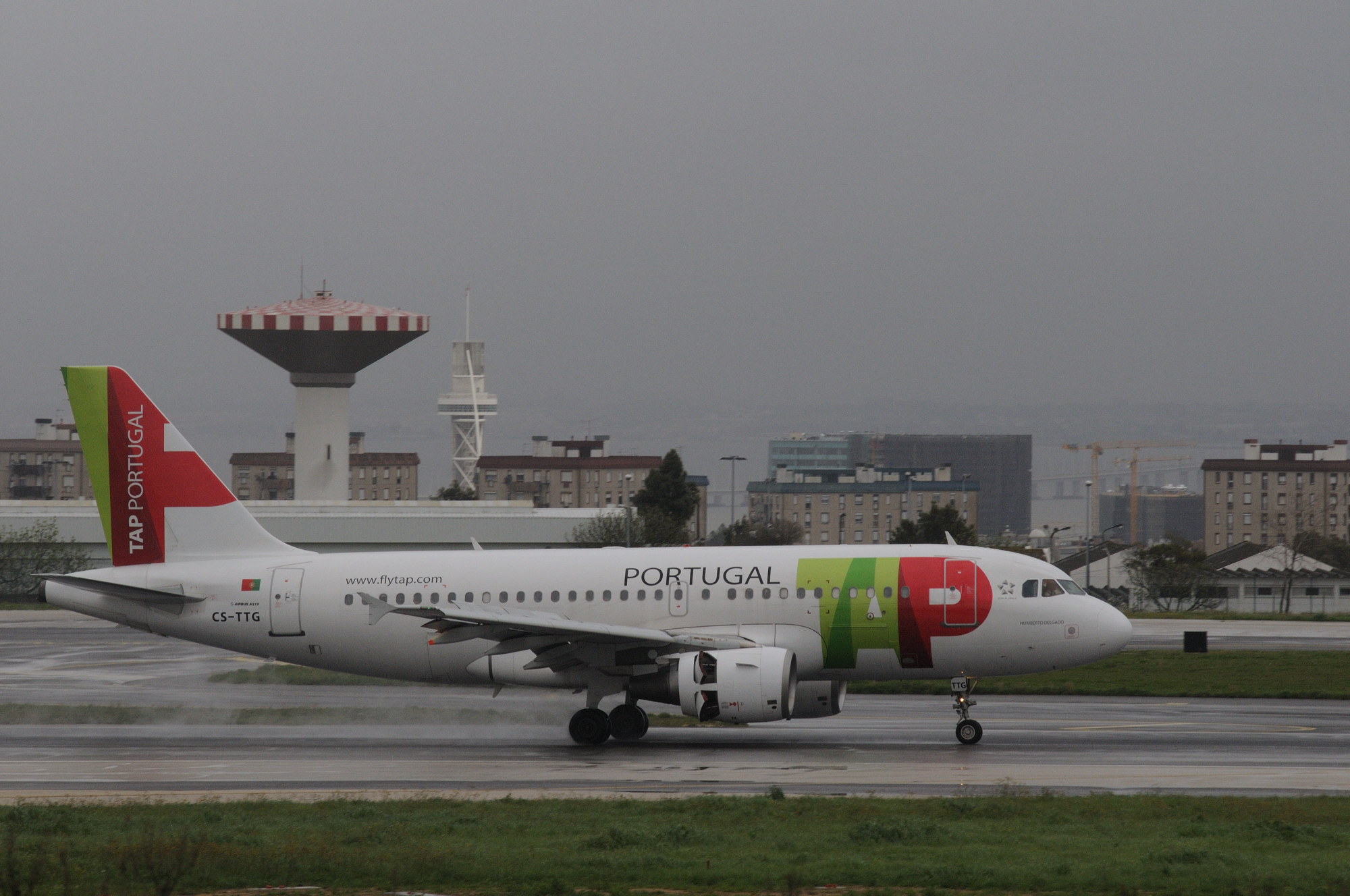 TAP Airbus A-319-111 CS-TTG landing in rain at Lissabon airport LIS 20081003. Nikon D300 / Otto Hassi